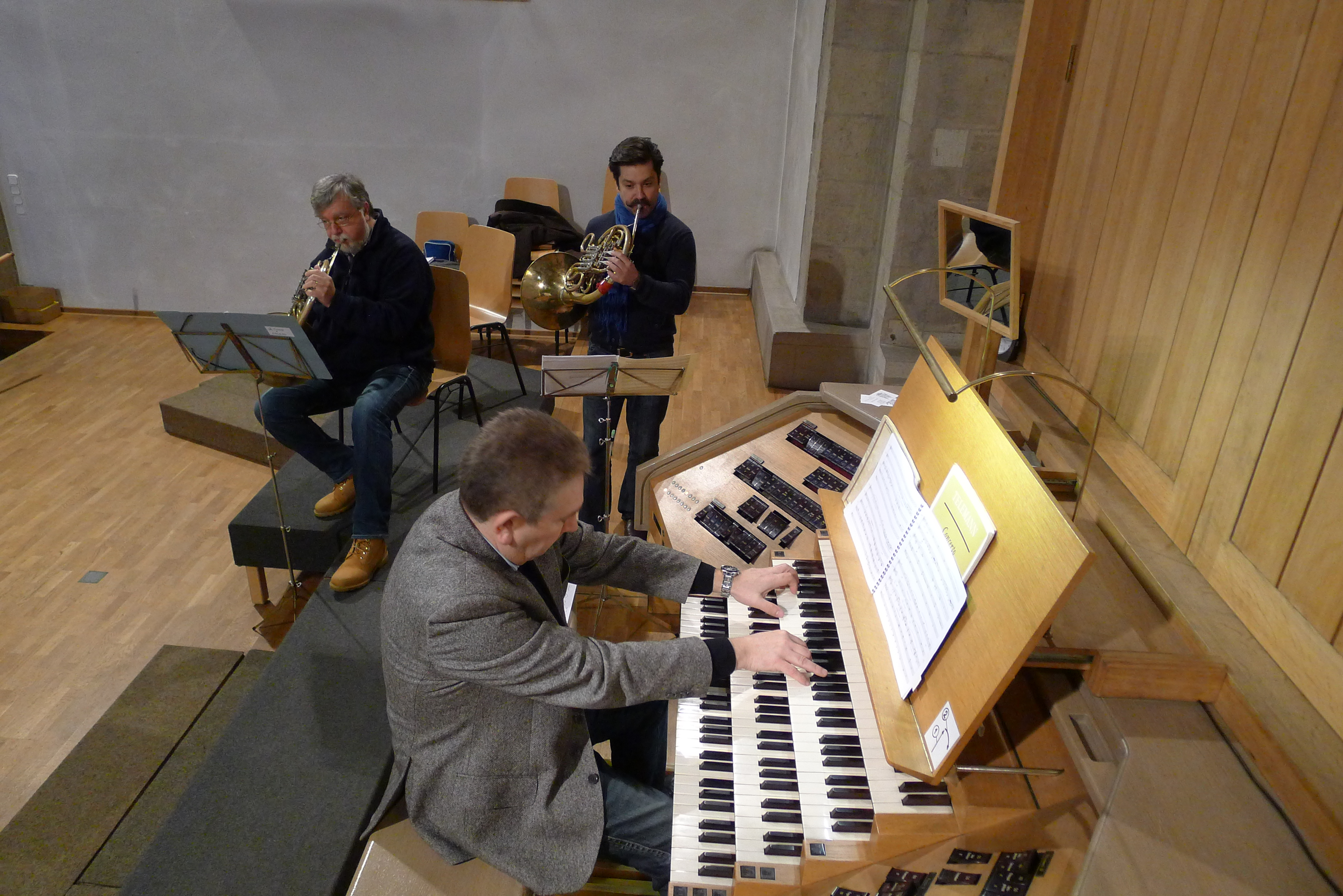 Horn and Organ concert, 2013-03-09